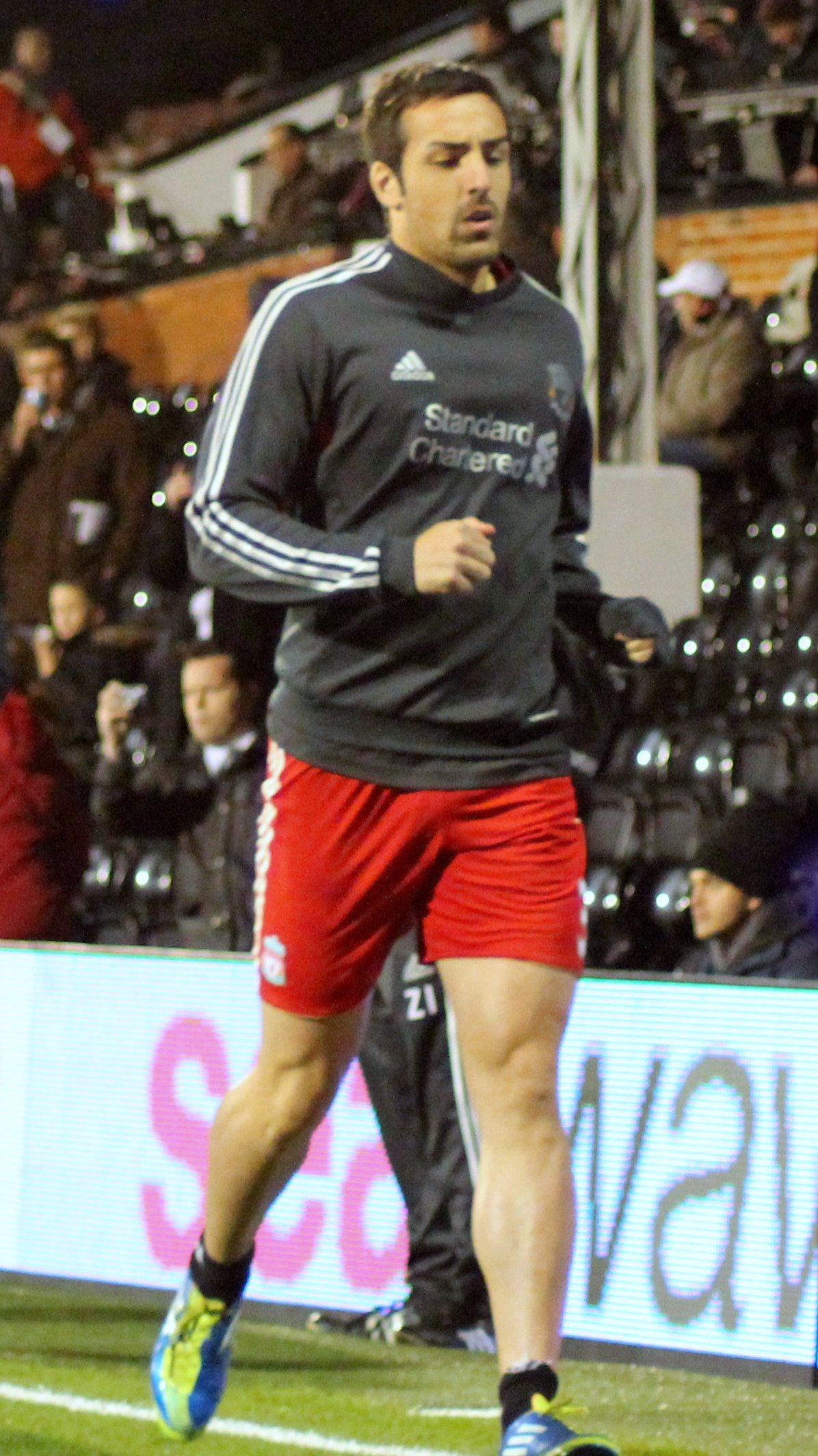 Sánchez Díaz warming up before the Fulham vs Liverpool game